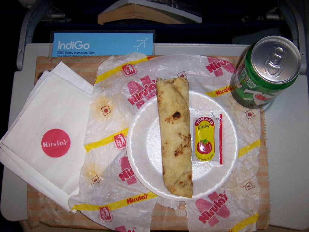 Onboard an Indigo flight, I bought me a mutton kathi roll in advance for 45/- rupees and a 7-Up for 25/- rupees. I then looked out at the clouds and the sky, and was at peace with God above and stomach below. Delicious.